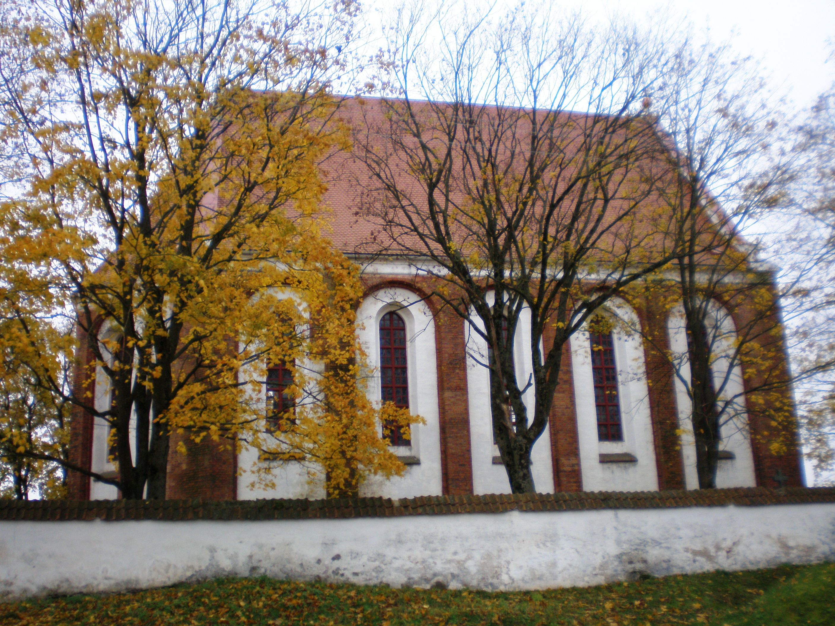 The church of Skaruliai